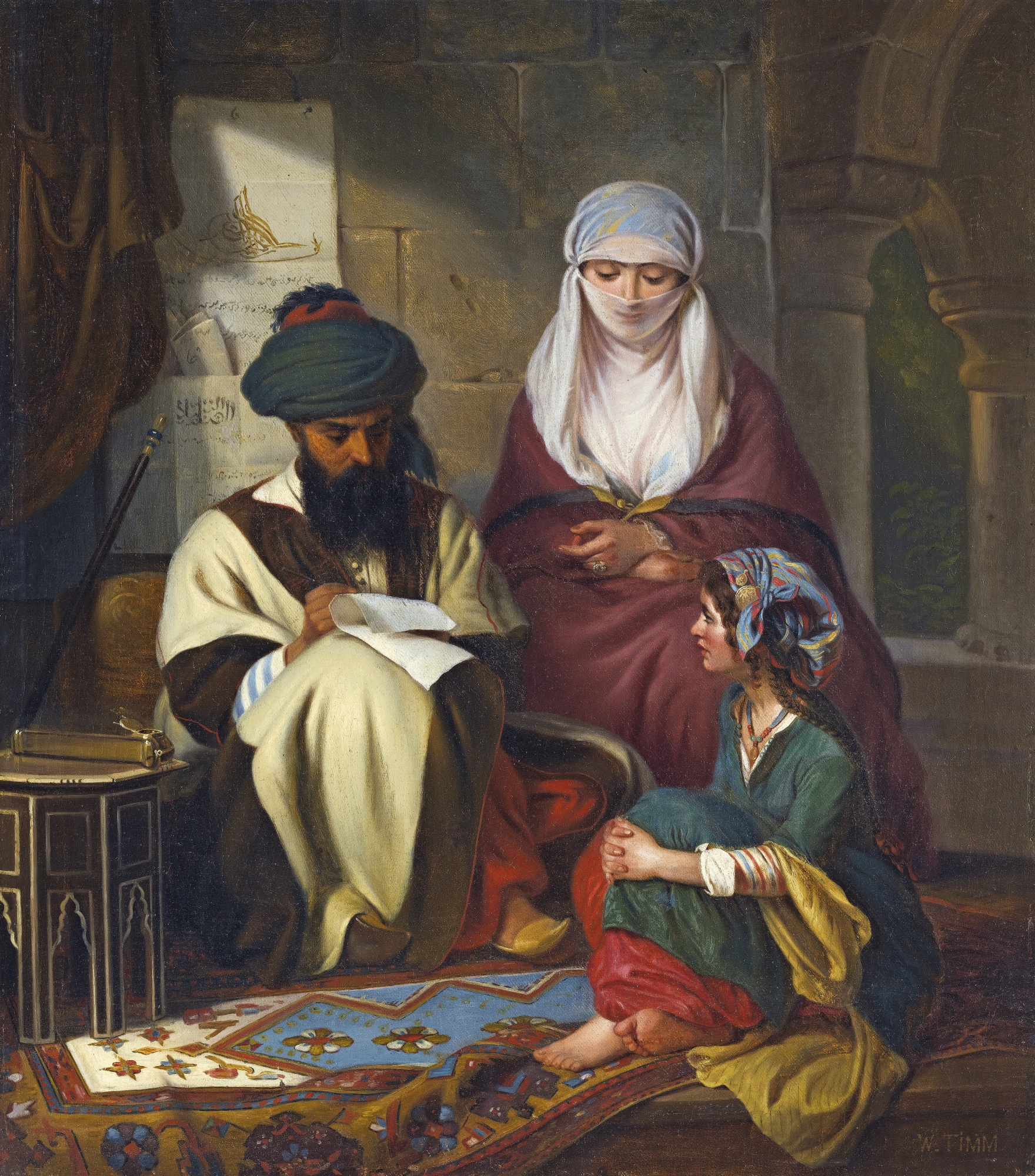 The scribe